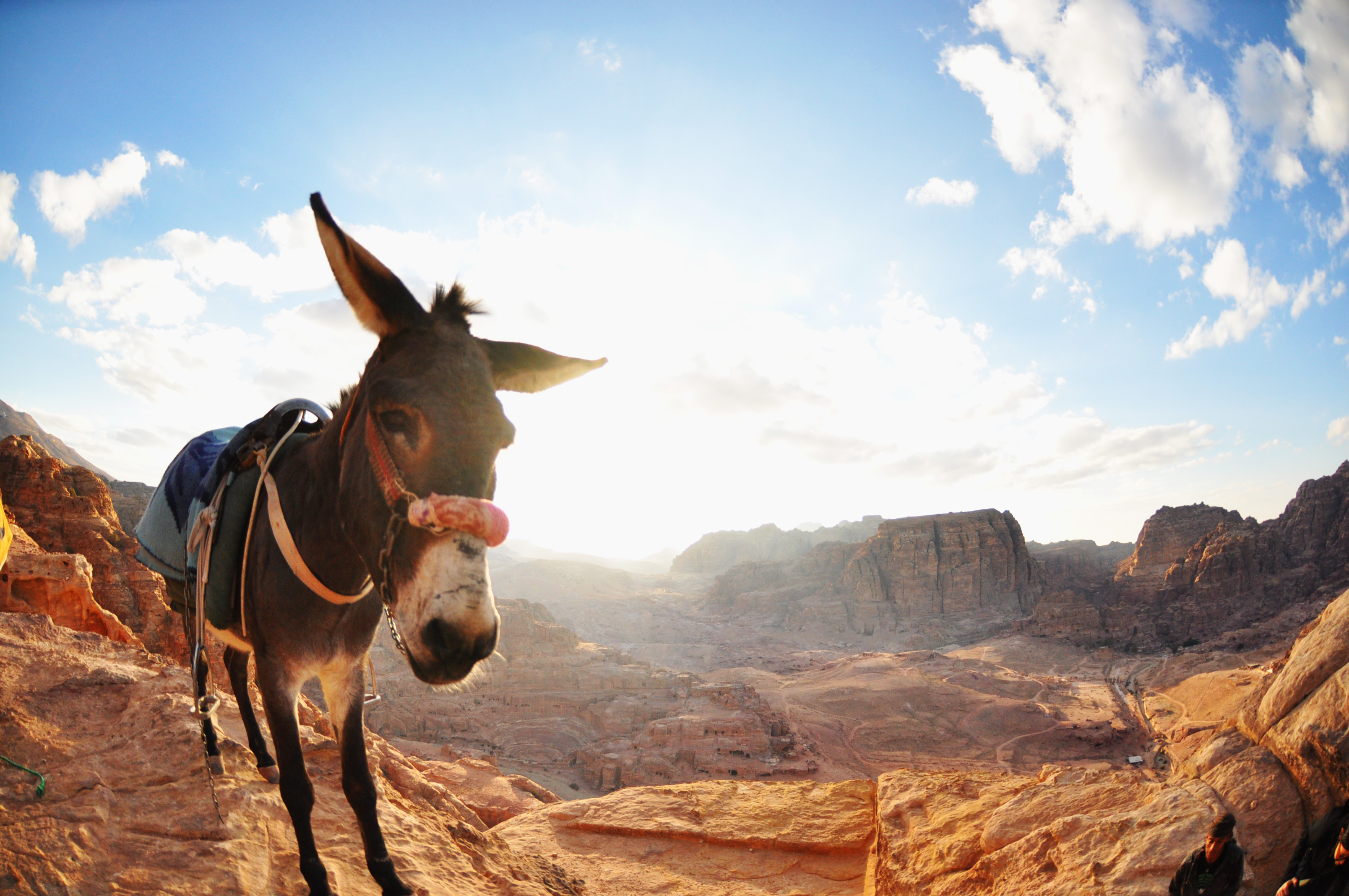 Hiking with donkey in Wadi Rum